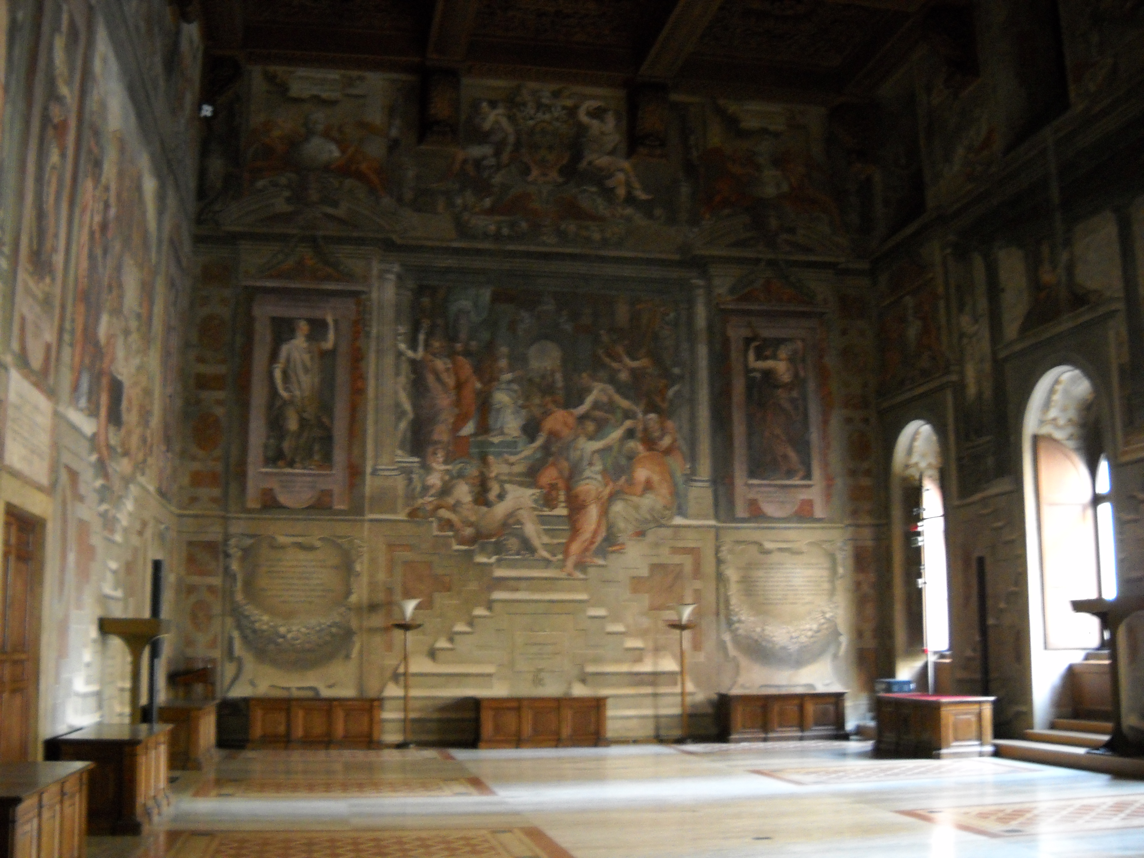 Photo of Sala dei Cento Giorni - Giorgio Vasari - 1547 - Palazzo della Cancelleria